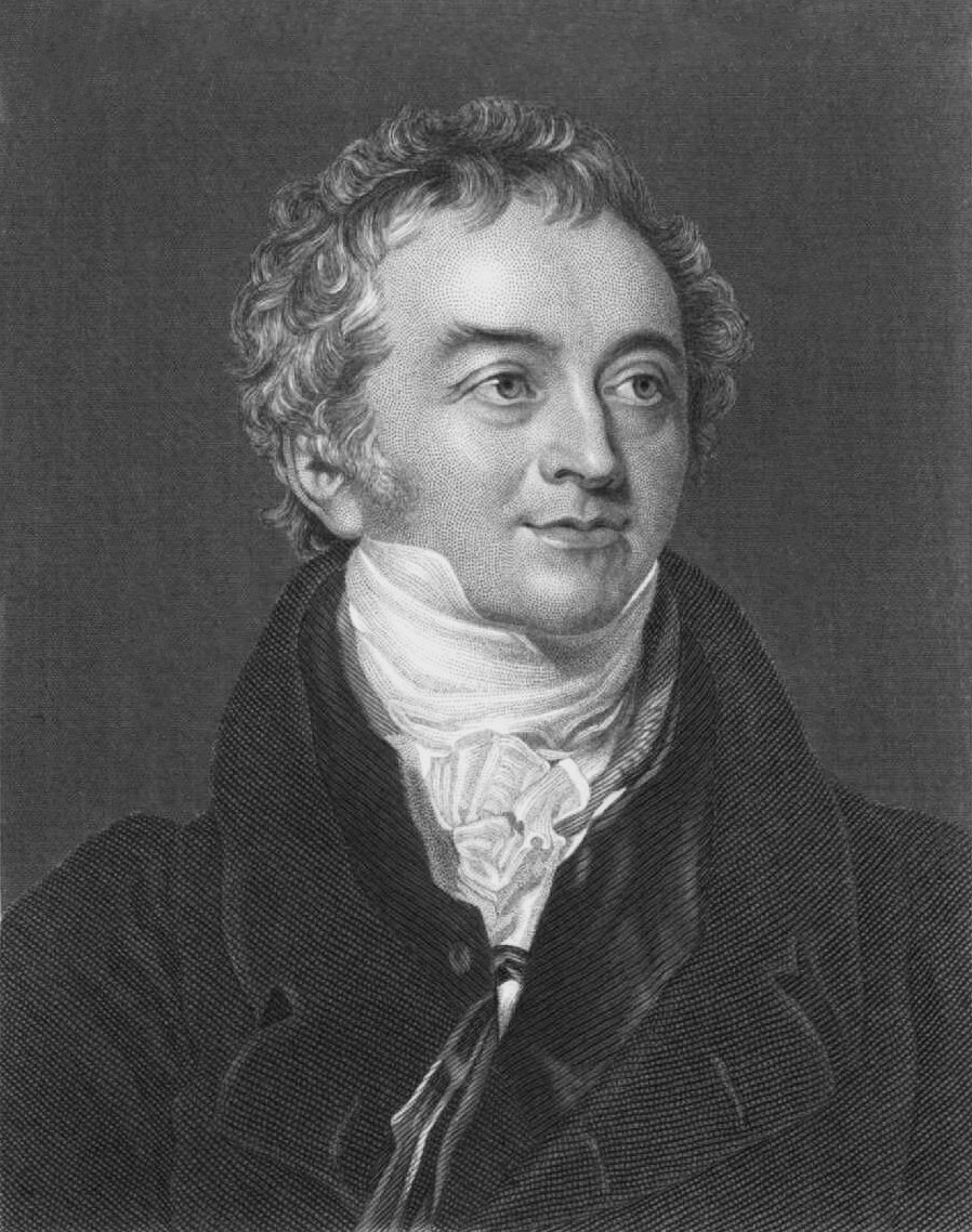 Portrait of Thomas Young (1773–1829), British scientist